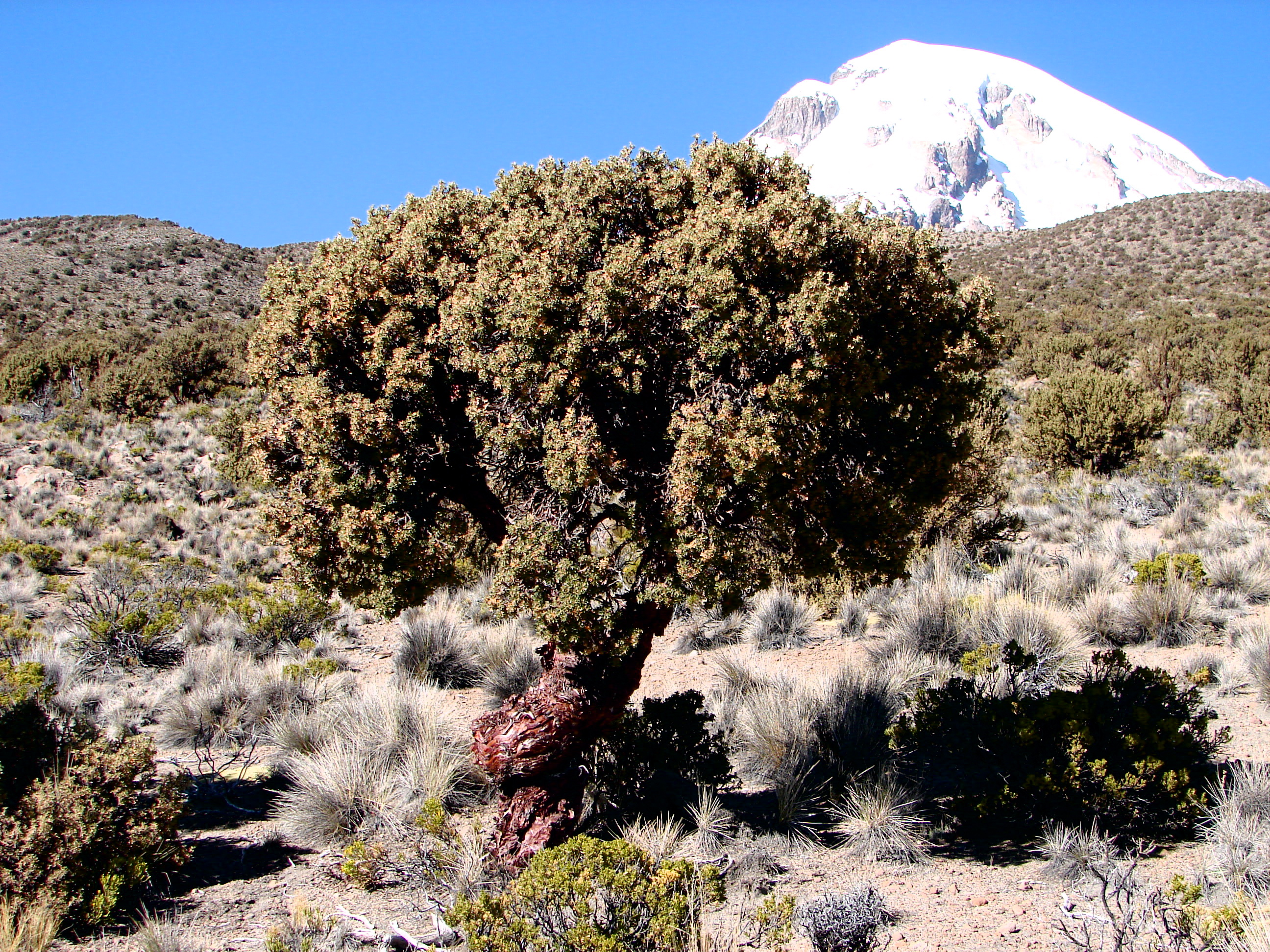 Polylepis rugulosa belongs to the genus Polylepis, trees that grow in the Andes highland region of Peru, Bolivia and Chile. It is one of the highest altitude living trees in the world. This image of the tree was taken at 4875 m (16,000 feet) above sea level on the slopes of Sajama National Park in Bolivia.